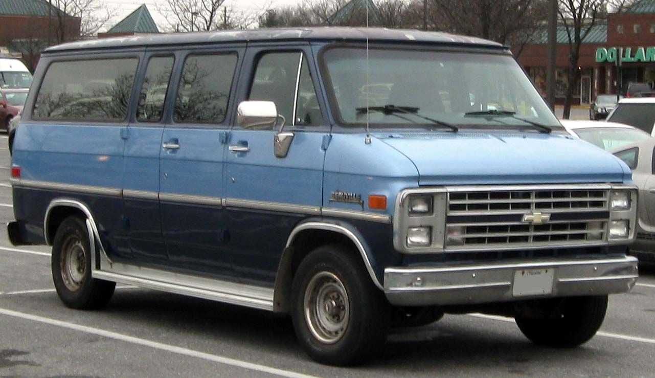 1988 Chevrolet Beauville photographed in Clinton, Maryland, USA.